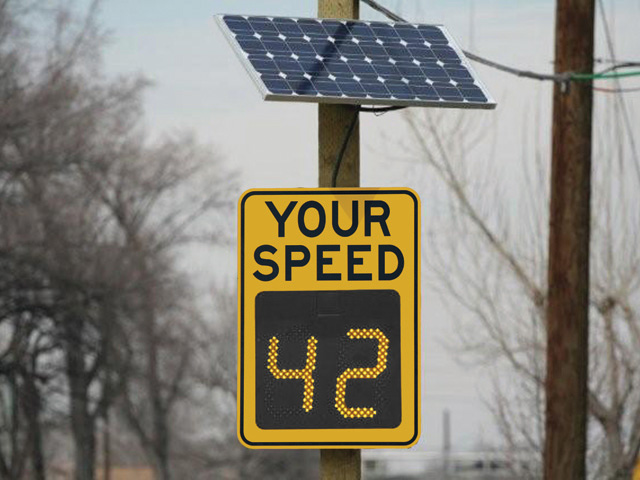 A standard Traffic Logix radar sign